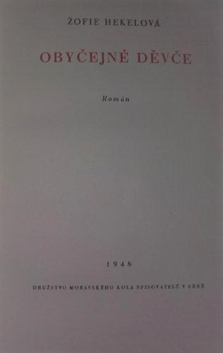 Obyčejné děvče, book by Žofie Hekelová, title page, 1948